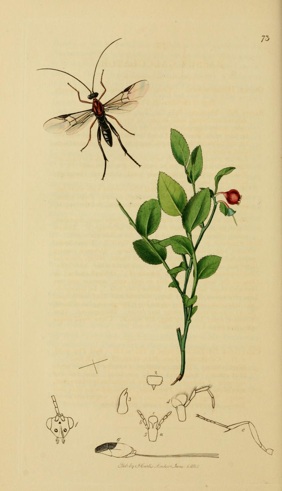 An illustration from British Entomology by John Curtis. Bassus calculator Valid name Synonym of Microdus calculator the Beautiful Bassus